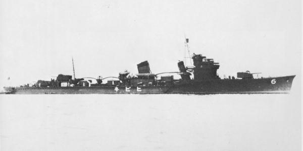 Japanese Destroyer "Hibiki" (Fubuki-class type-III or Akatsuki-class).